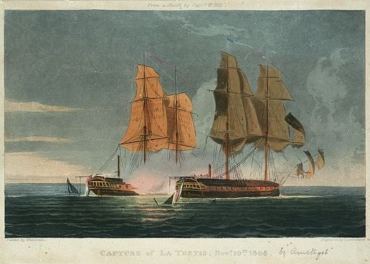 Capture of the Thétis by HMS Amethyst on 10 November 1808.